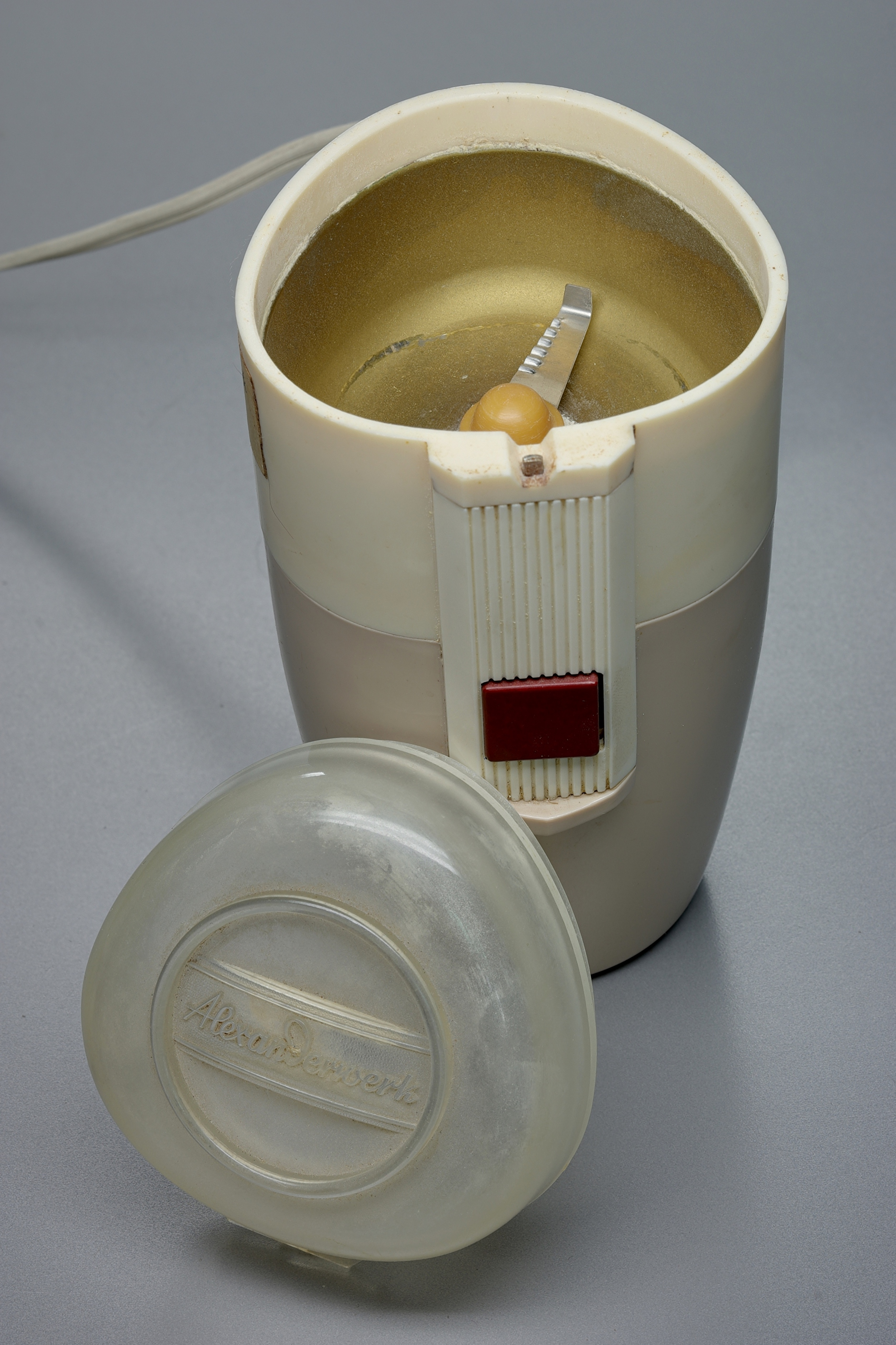 Coffee grinder Alexanderwerk Type 4155